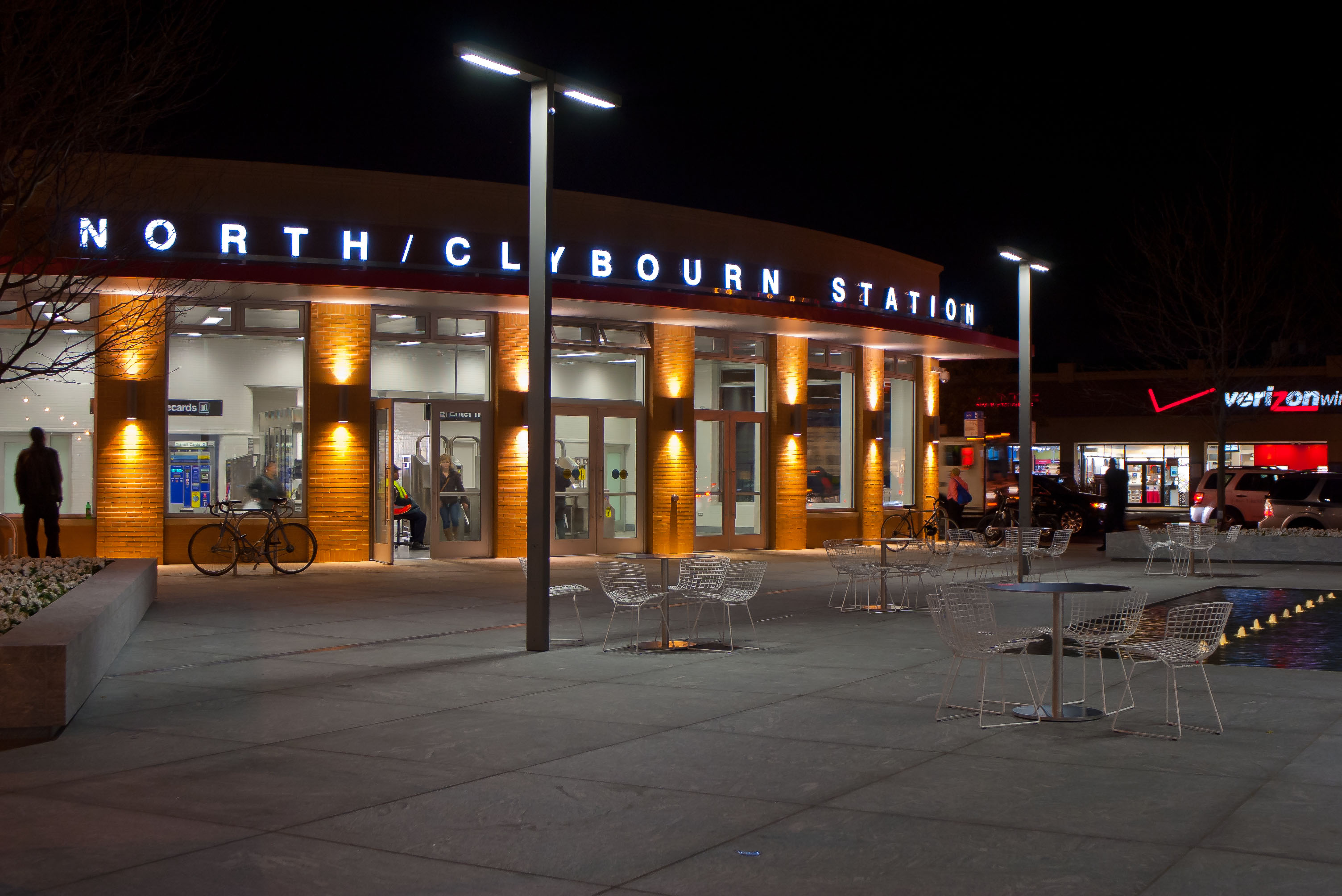 North/Clybourn 'L' station on the CTA Red line in Chicago, Illinois.